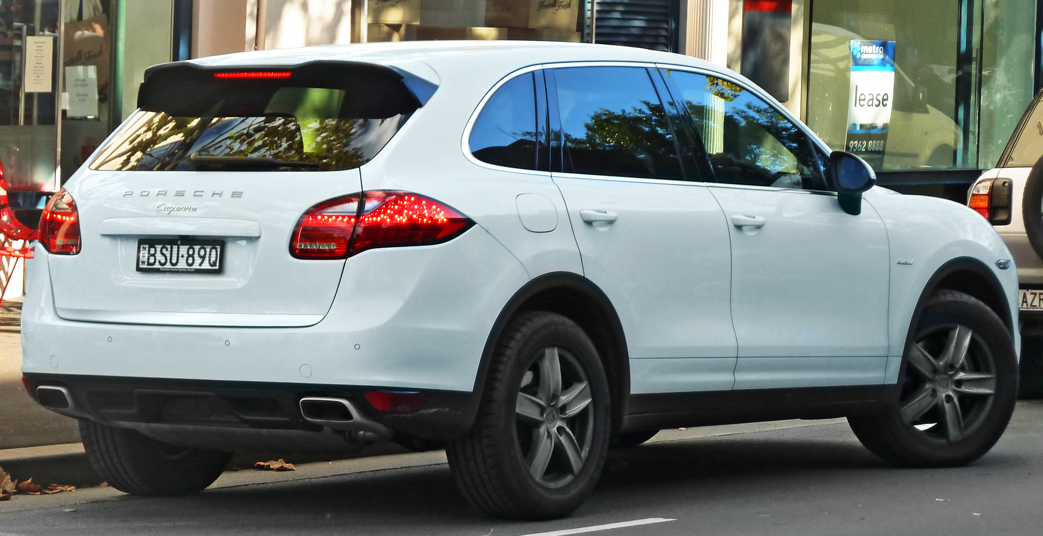 2010 Porsche Cayenne (92A MY11) Diesel wagon. Photographed in Dawes Point, New South Wales, Australia.